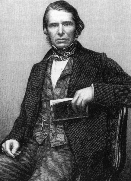 Charles Edward Trevelyan (contemporary lithograph). This appeared in one of the volumes of "The drawing-room portrait gallery of eminent personages principally from photographs by Mayall, many in Her Majesty's private collection, and from the studios of the most celebrated photographers in the Kingdom / engraved on steel, under the direction of D.J. Pound; with memoirs by the most able authors". Many libraries own copies.